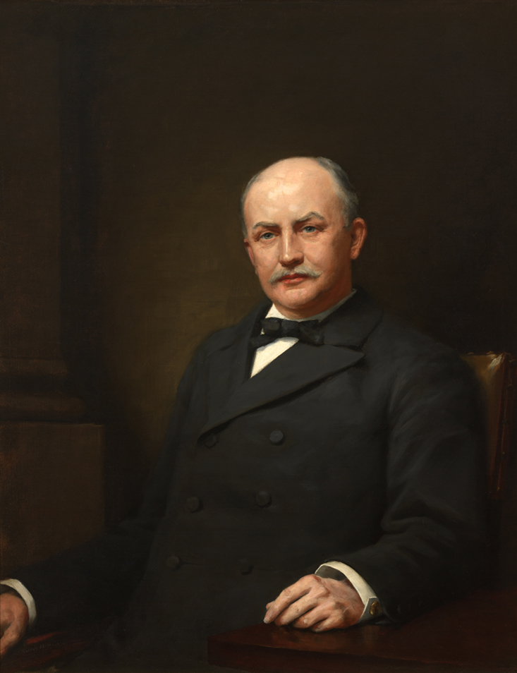 Charles Frederick Crisp (1845-1896)